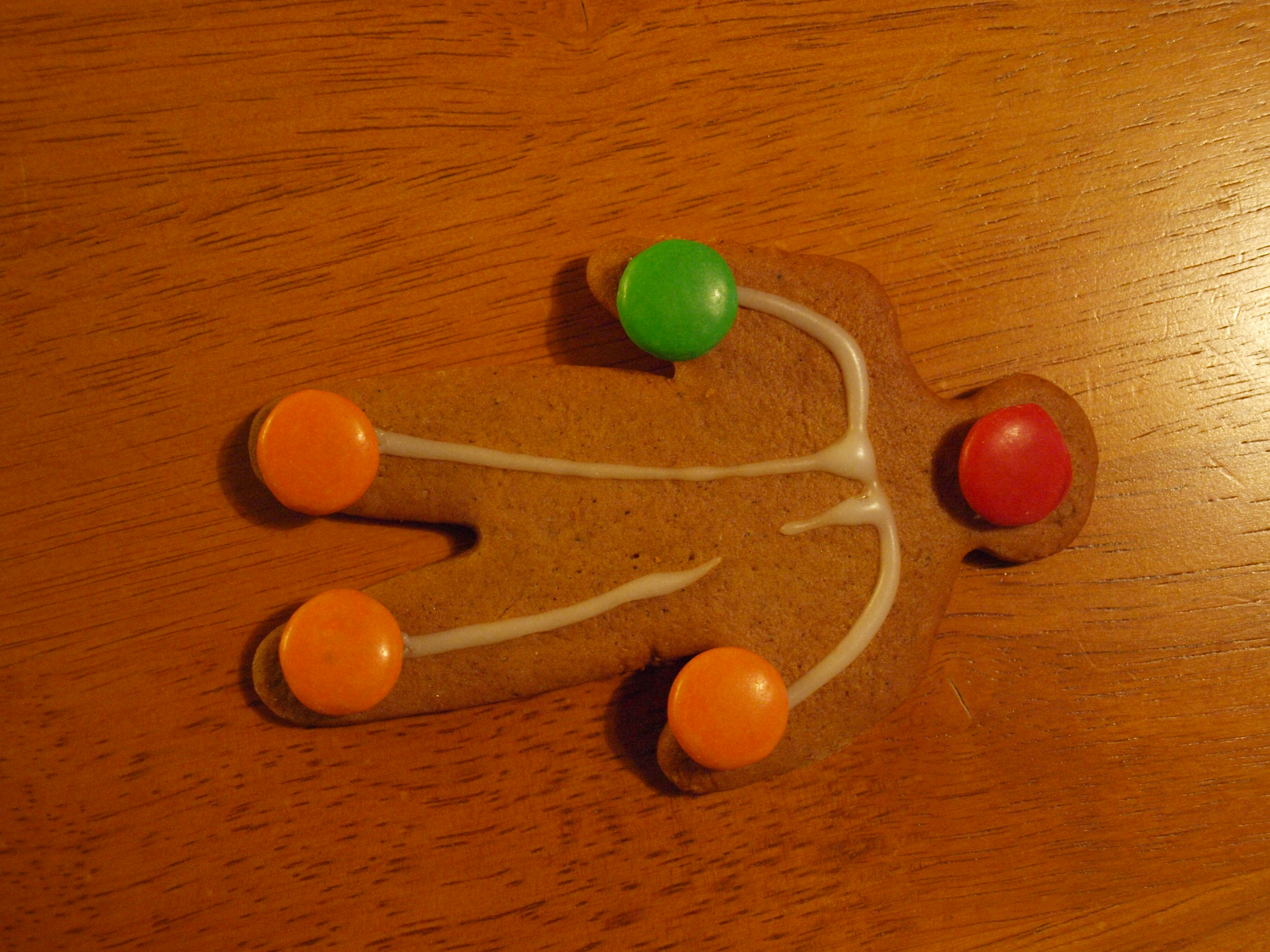 Gingerbread figure with "Non Stop" (norwegian chocolate)